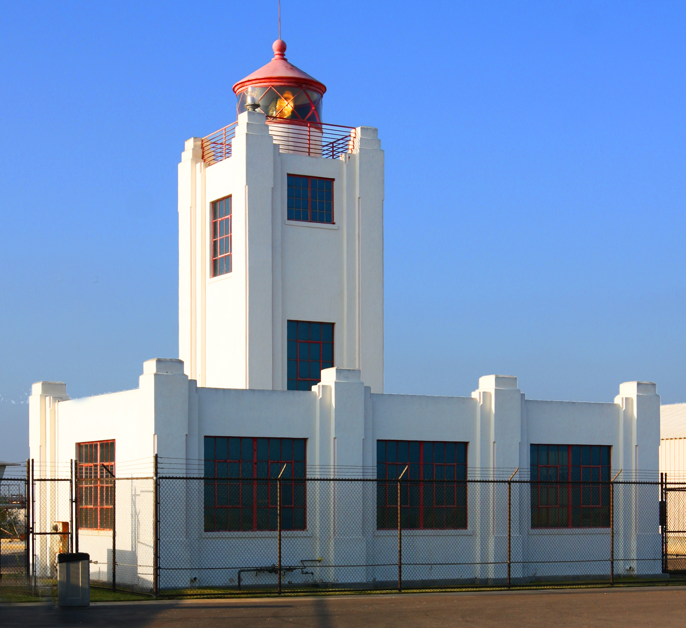 Point Hueneme Lighthouse was first used in 1941. It still contains its fourth order fresnel lens from 1897.